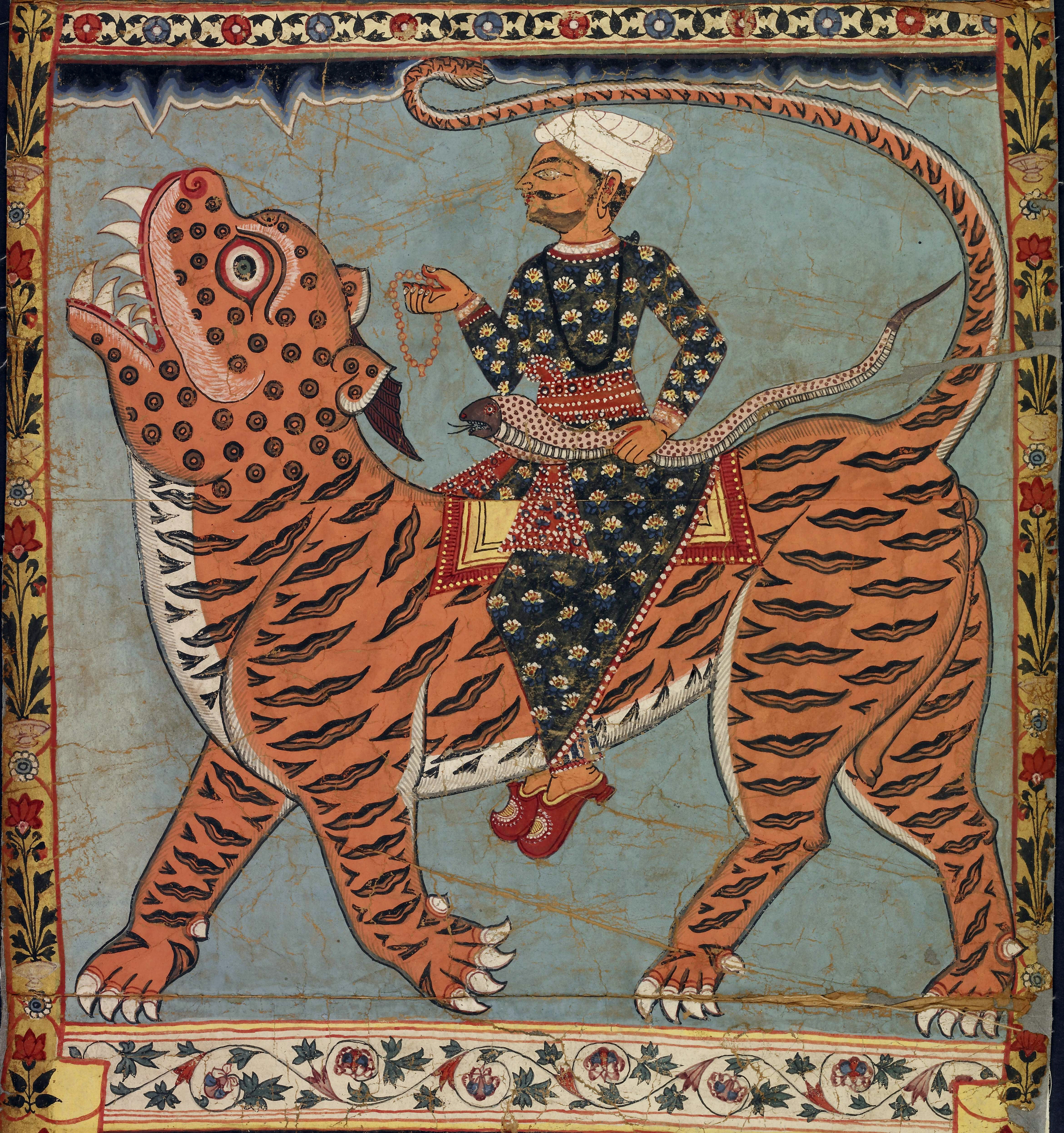 Scene from the Gazi scrolls of Bengal (18th or 19th century). Depicts the legend of Pir Gazi and his tiger in the Sundarbans